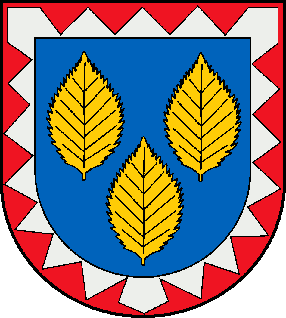 Coat of arms of the municipality Boksee in Schleswig-Holstein, Germany.